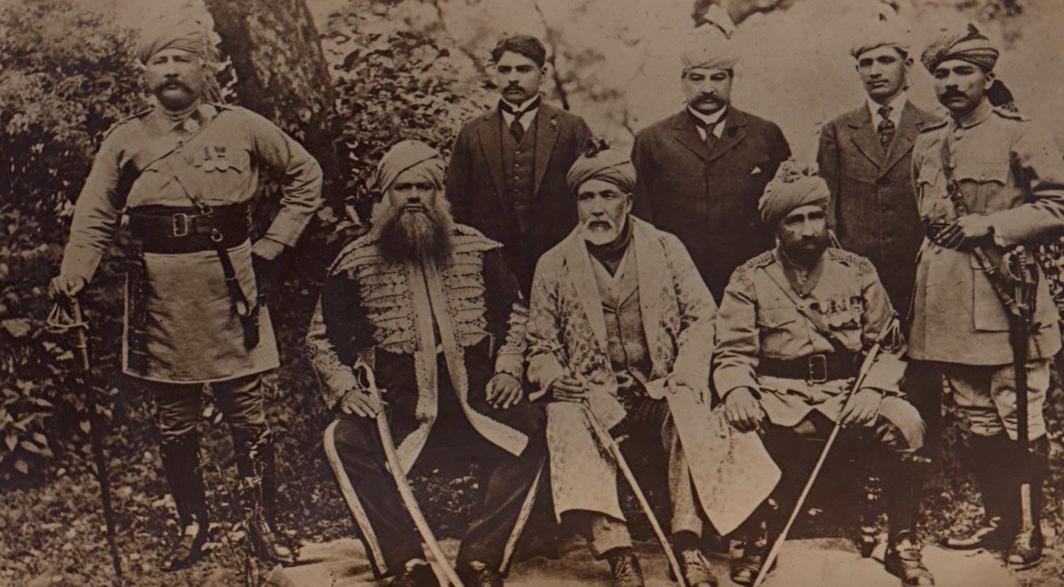 This is a photograph of Amjad Ali Shah and his advisers, and comes from the Sardhana Estate, near Meerut and is in the public domain.